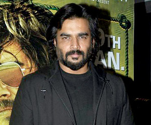 Madhavan at the special screening of Saala Khadoos